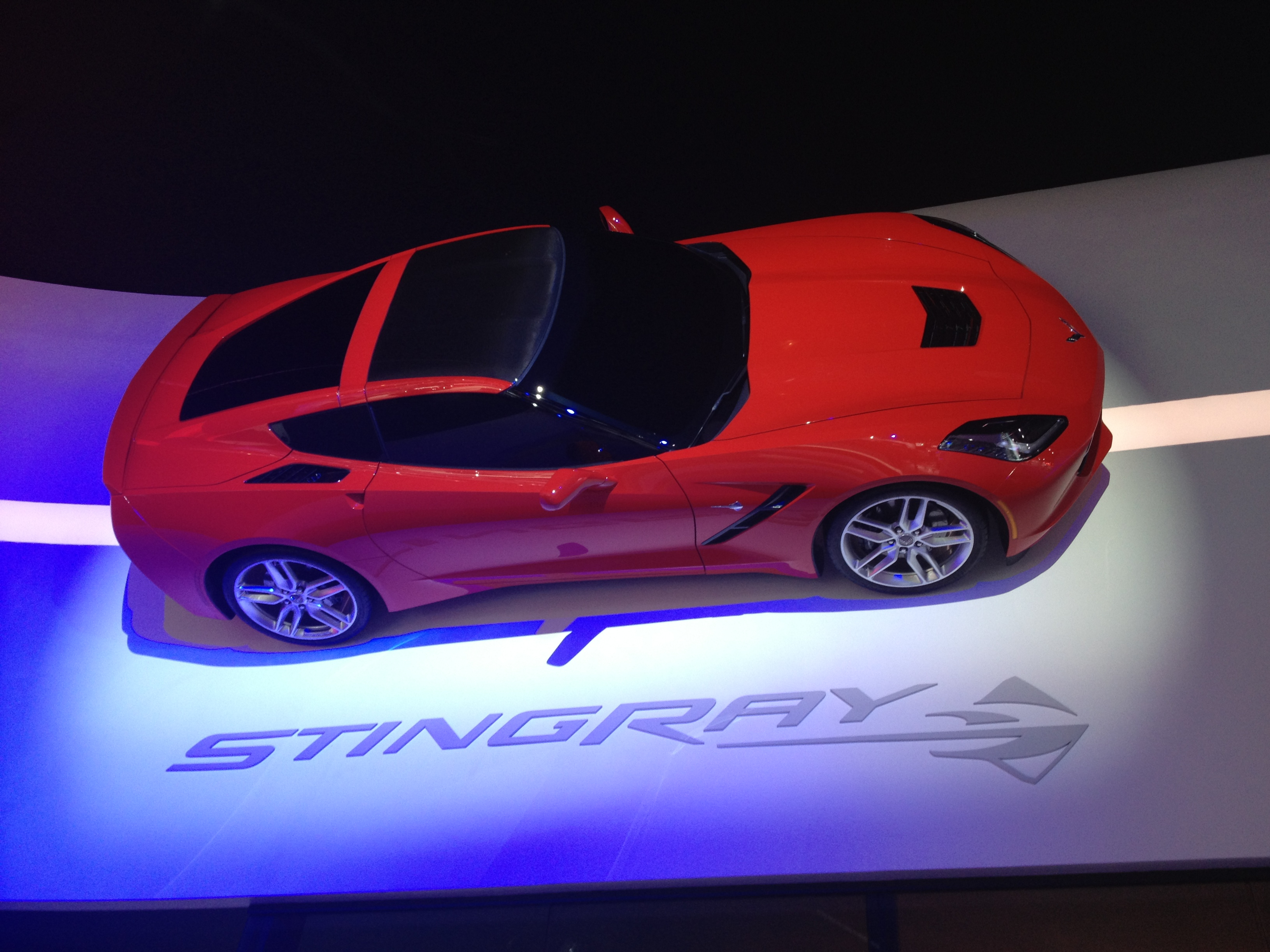 2013 North American International Auto Show Detroit, Michigan